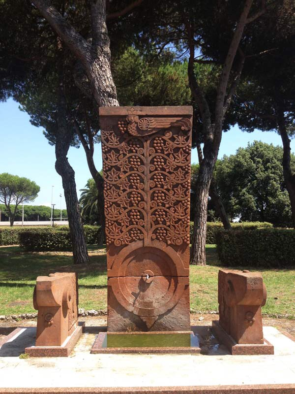 Yerevan-Karara friendship sring-monument, architect Ռաֆայել Իսրայելյան, sculptor Ara Harutyunyan